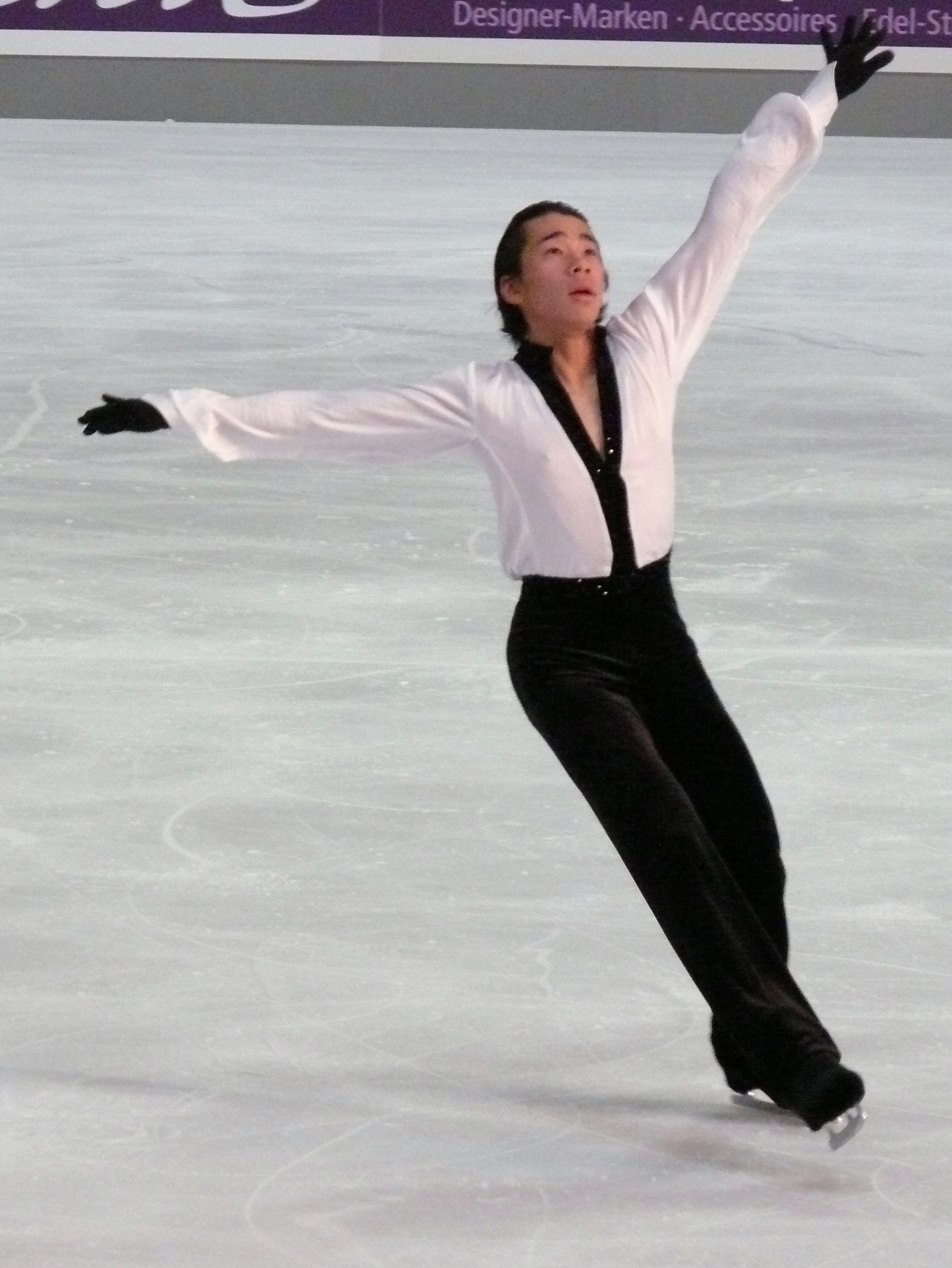 Nobunari Oda at the free program of the Nebelhorntrophy 2008 in Oberstdorf, Germany